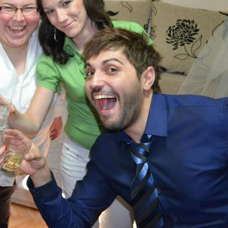 Petar Stojkovikj making a toast to his best friend's wedding